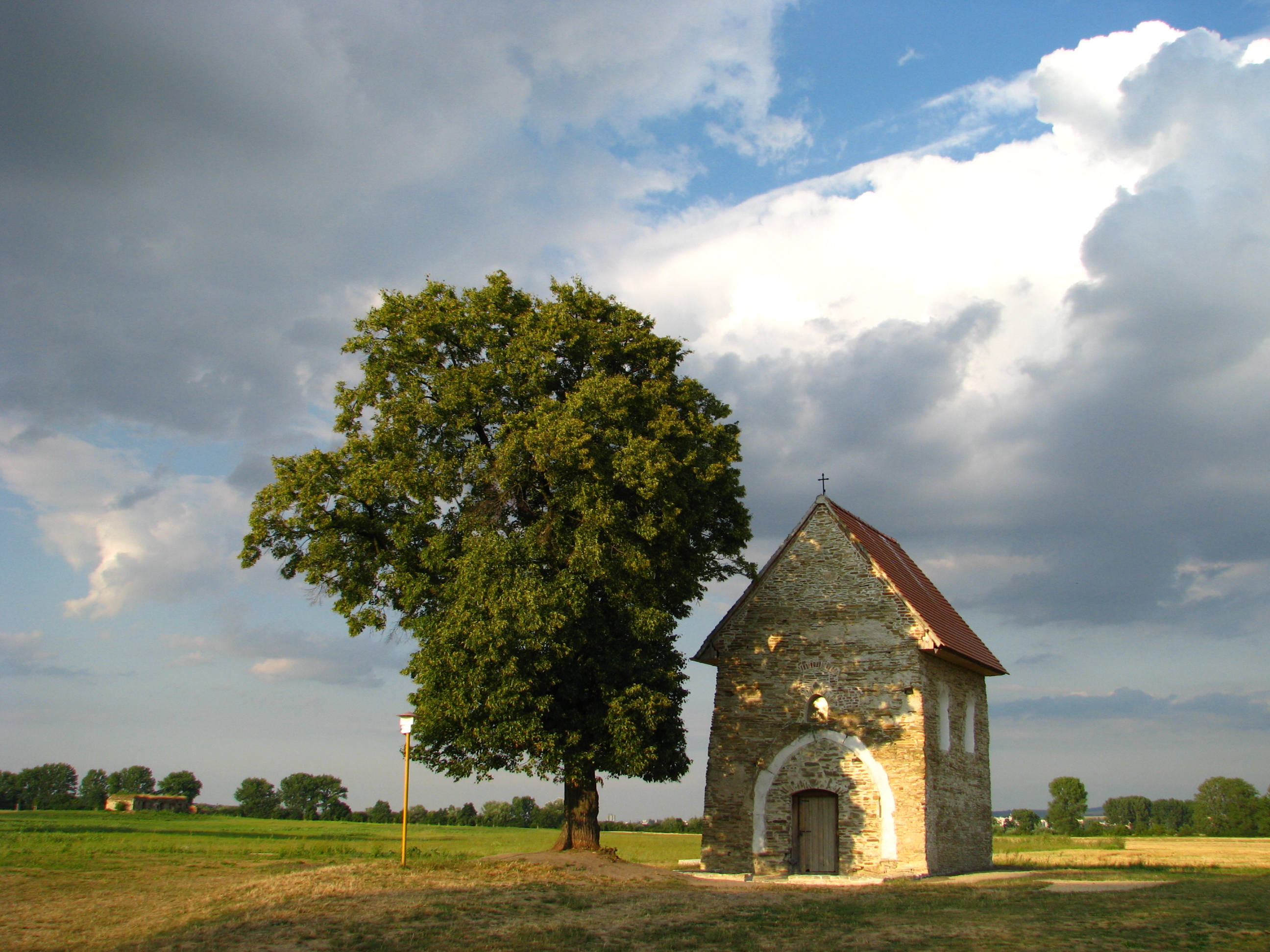 Church of St. Margaret of Antioch, KopčanySlovenčina: Kostol svätej Margity Antiochijskej (Kopčany)Беларуская (тарашкевіца): Касьцёл Сьвятой Маргарыты Антыёхейскай (Копчаны)